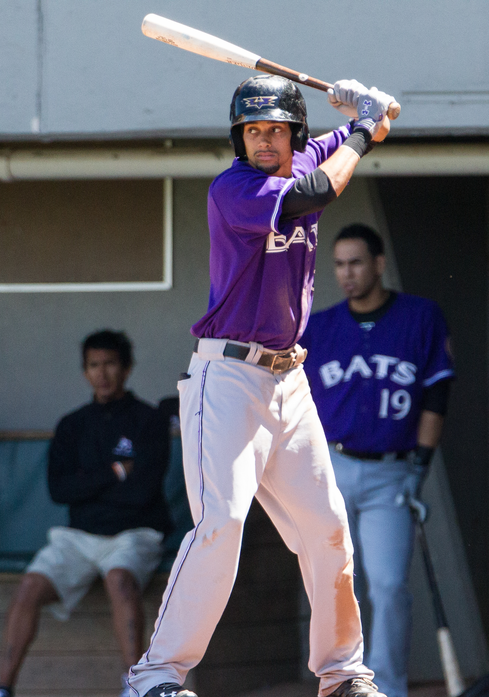 McCoy Stadium, Pawtucket, RI. August 14, 2013. Photo: Ken Jancef